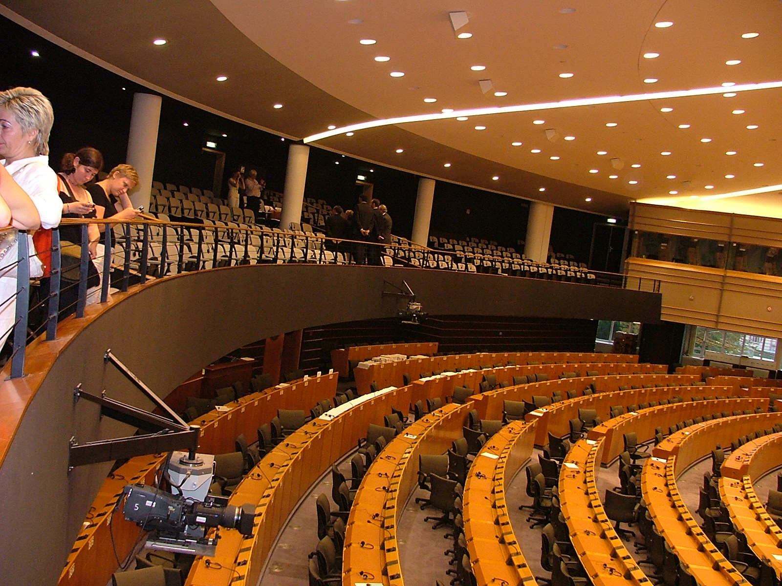 Belgium, Bruxelles - Brussel, European Parliament. Public gallery in the hemicycle.